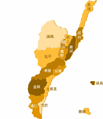 Map of Taitung County.